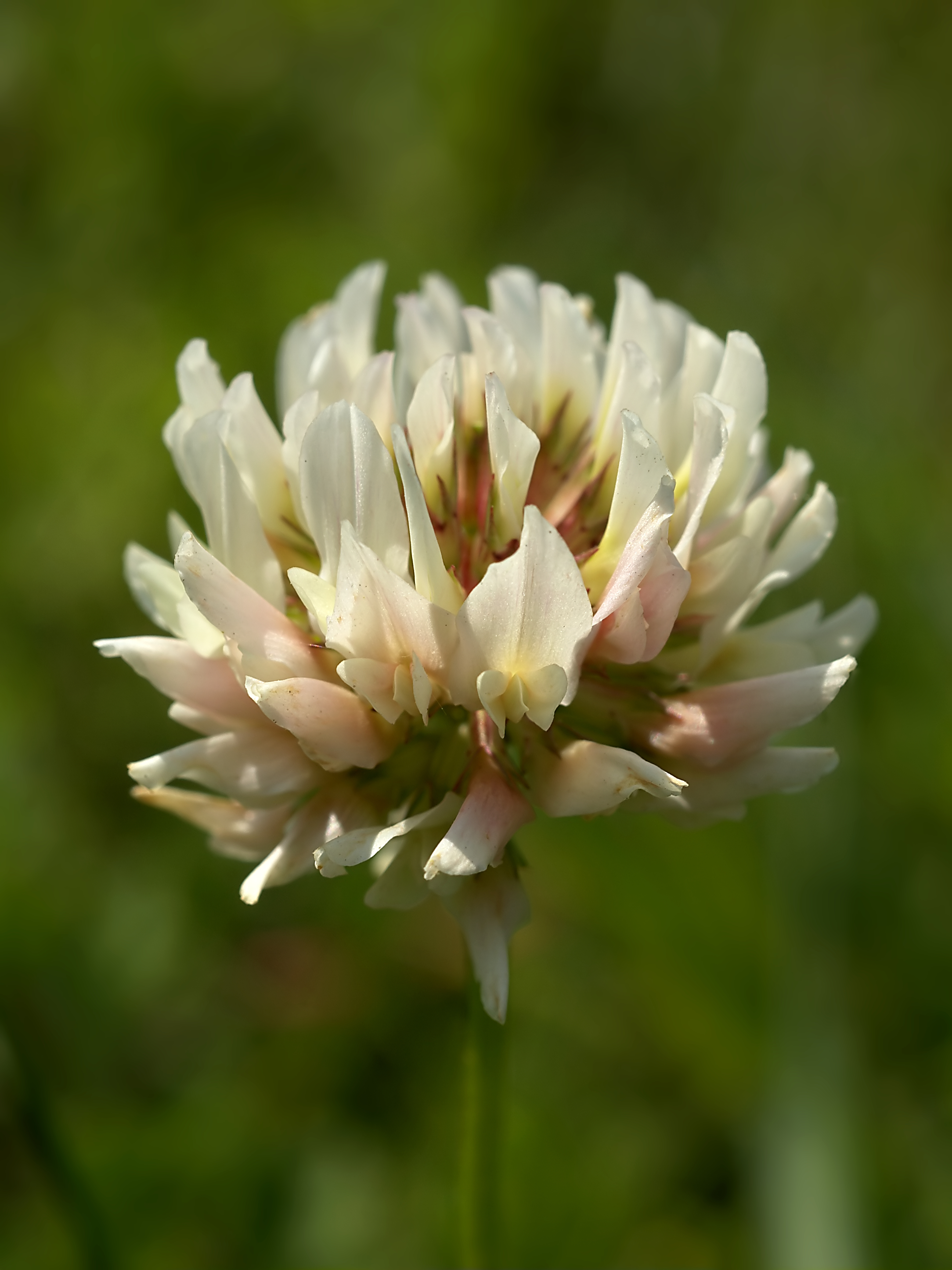 White clover flowers behind fish auction buildings at Oostende, Belgium